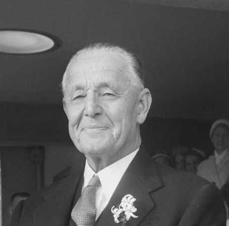 Wedding photograph of middle-aged MP